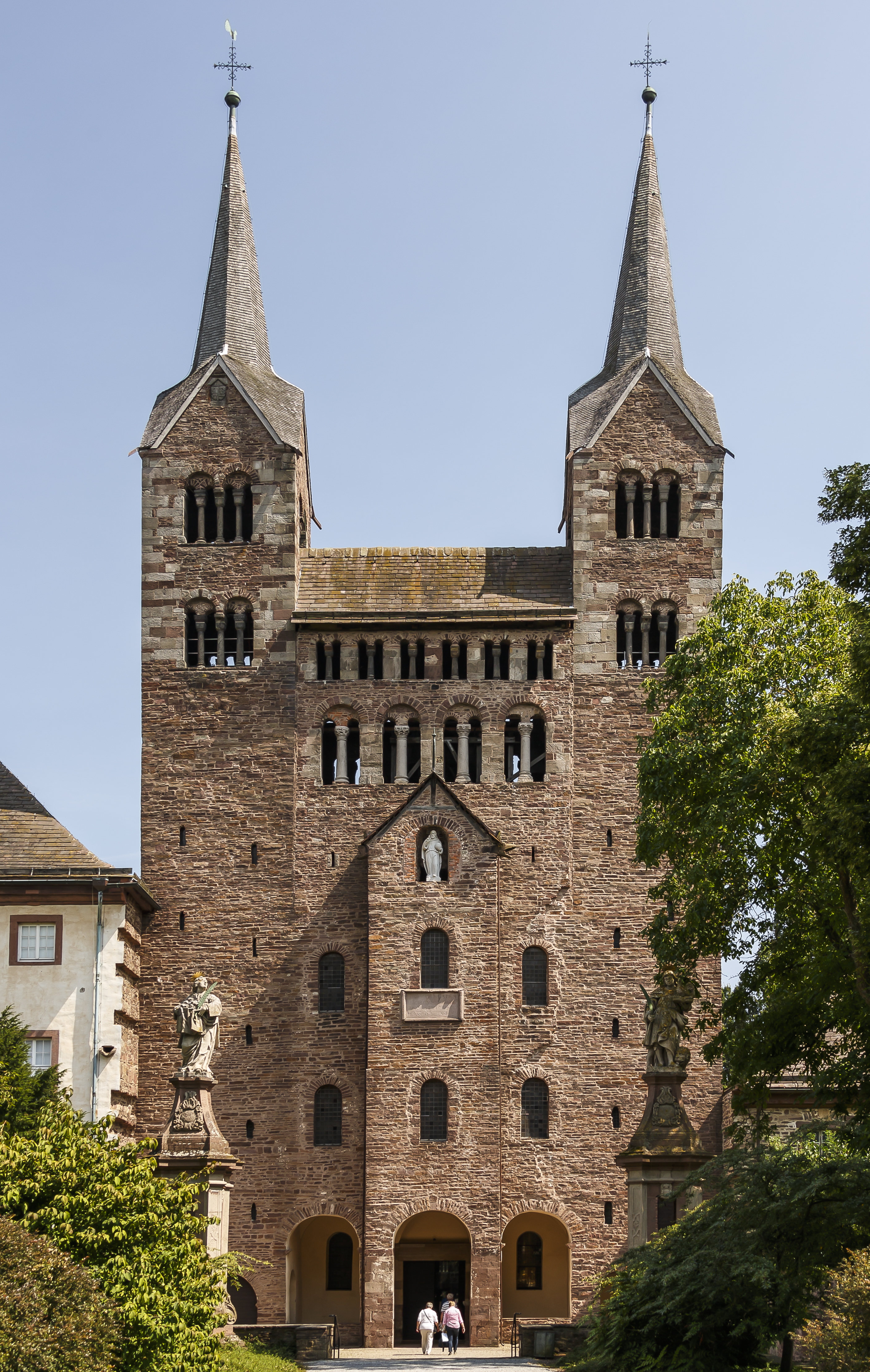 Höxter, Germany: The westwork of Corvey